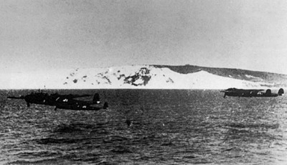 A German Dornier Do 17Z bombers in flight over the English Channel.